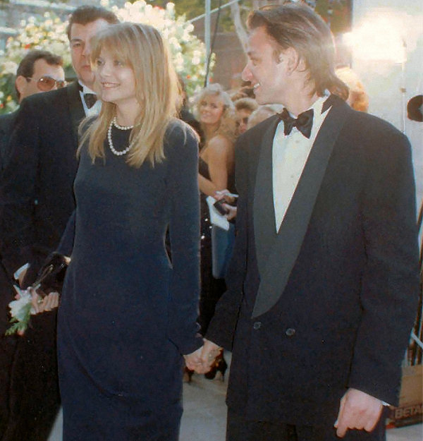 Michelle Pfeiffer and Fisher Stevens on the red carpet at the 62nd Annual Academy Awards